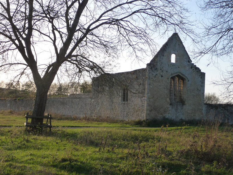 Ruin of Godstow Abbey, Lower Wolvercote, Oxfordshire